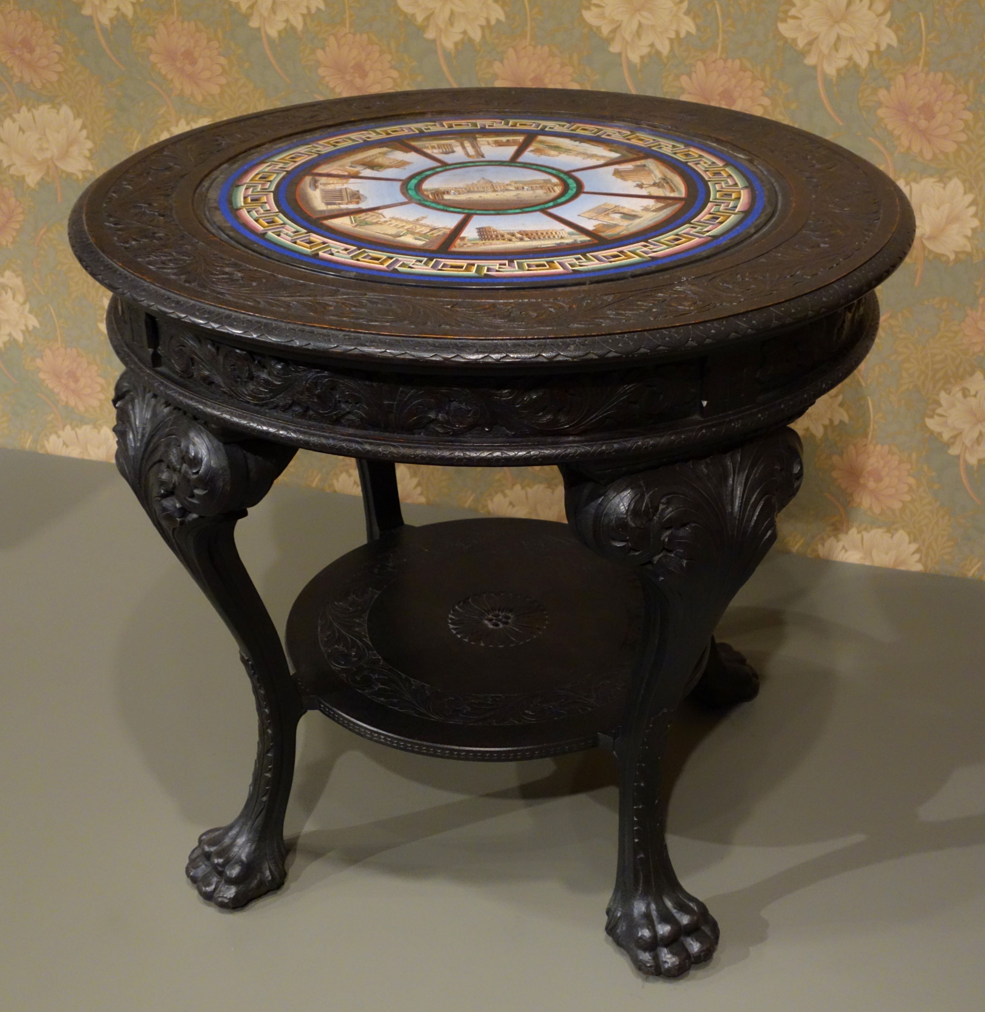 Exhibit in the Cincinnati Art Museum, Cincinnati, Ohio, USA. This artwork is in the public domain because the artist died more than 70 years ago.